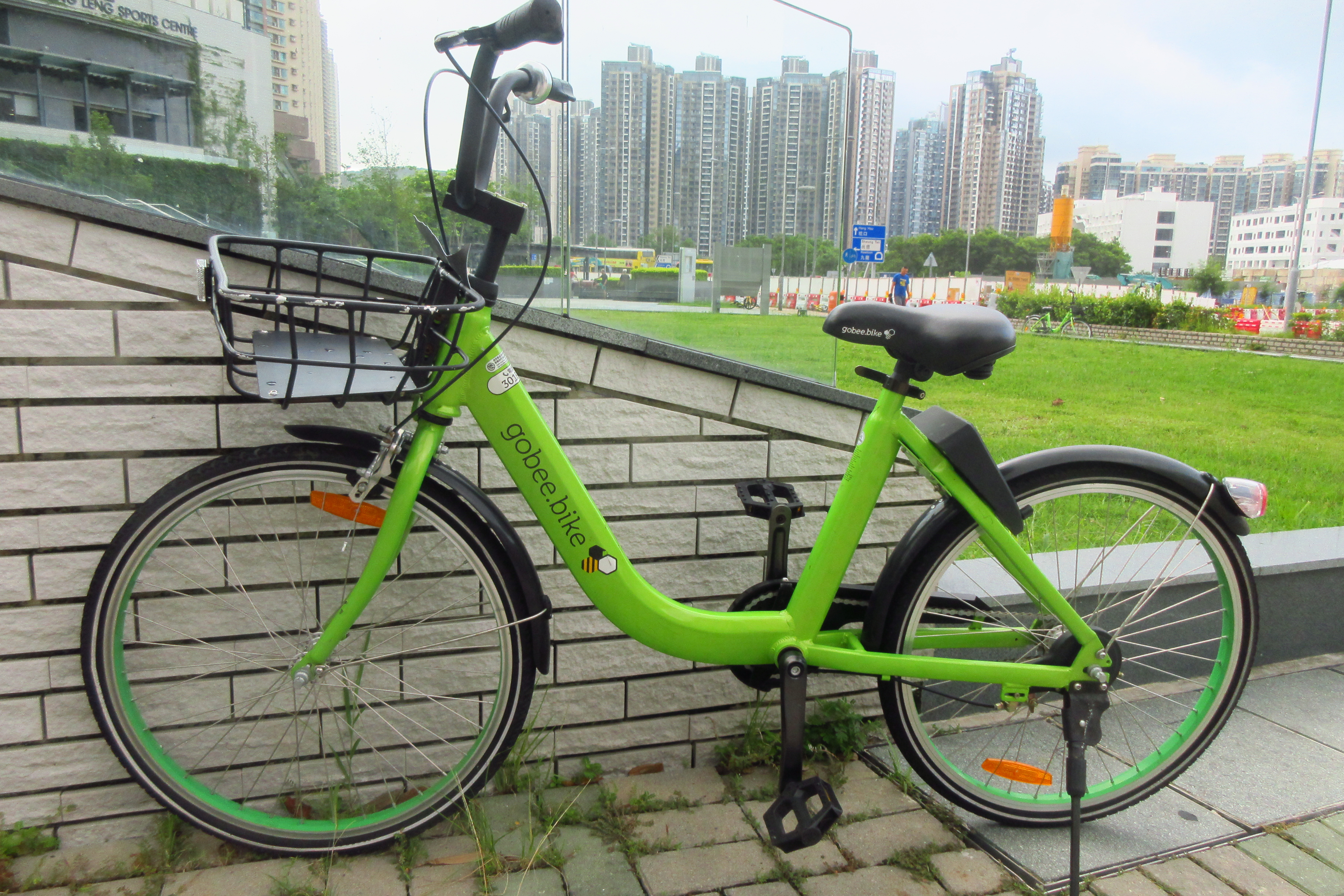 TKL 調景嶺 Tiu Keng Leng 翠嶺路 Chui Ling Road Sharing bike sidewalk parking in July 2018